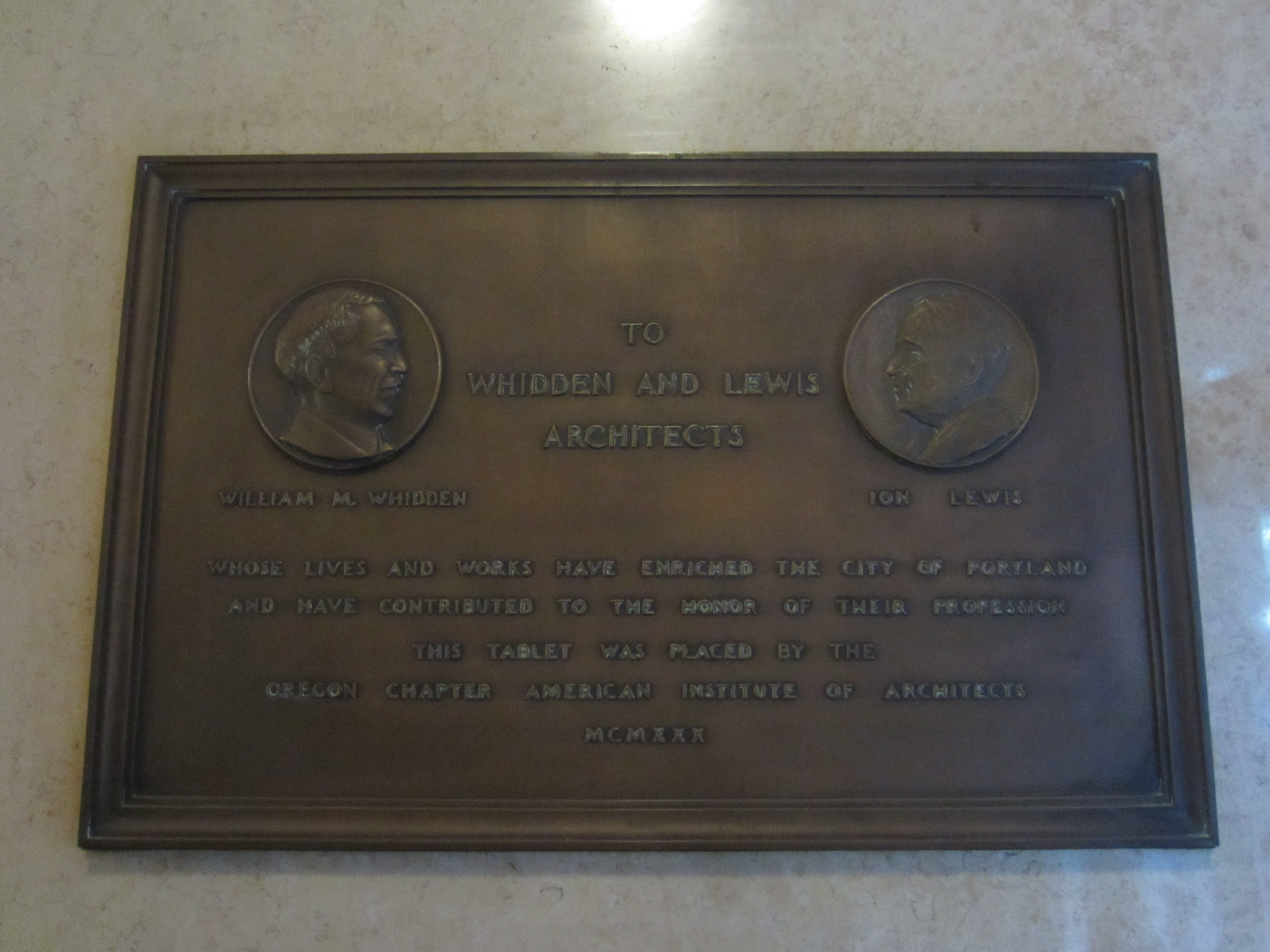 Portland City Hall, Oregon (2012)